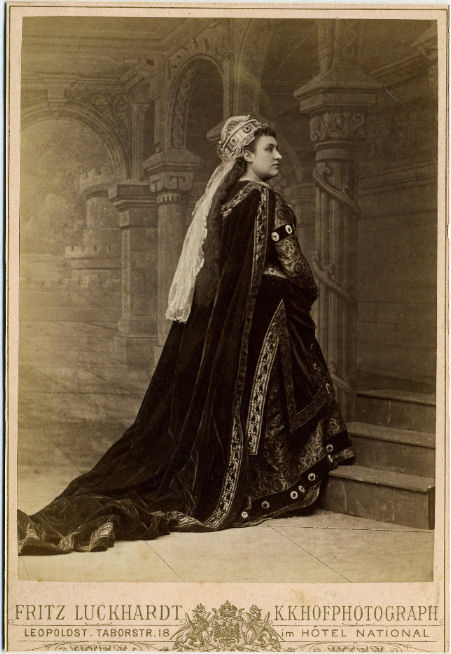 Soprano Amalie Materna as Ortrud in Wagner's Lohengrin in Vienna.